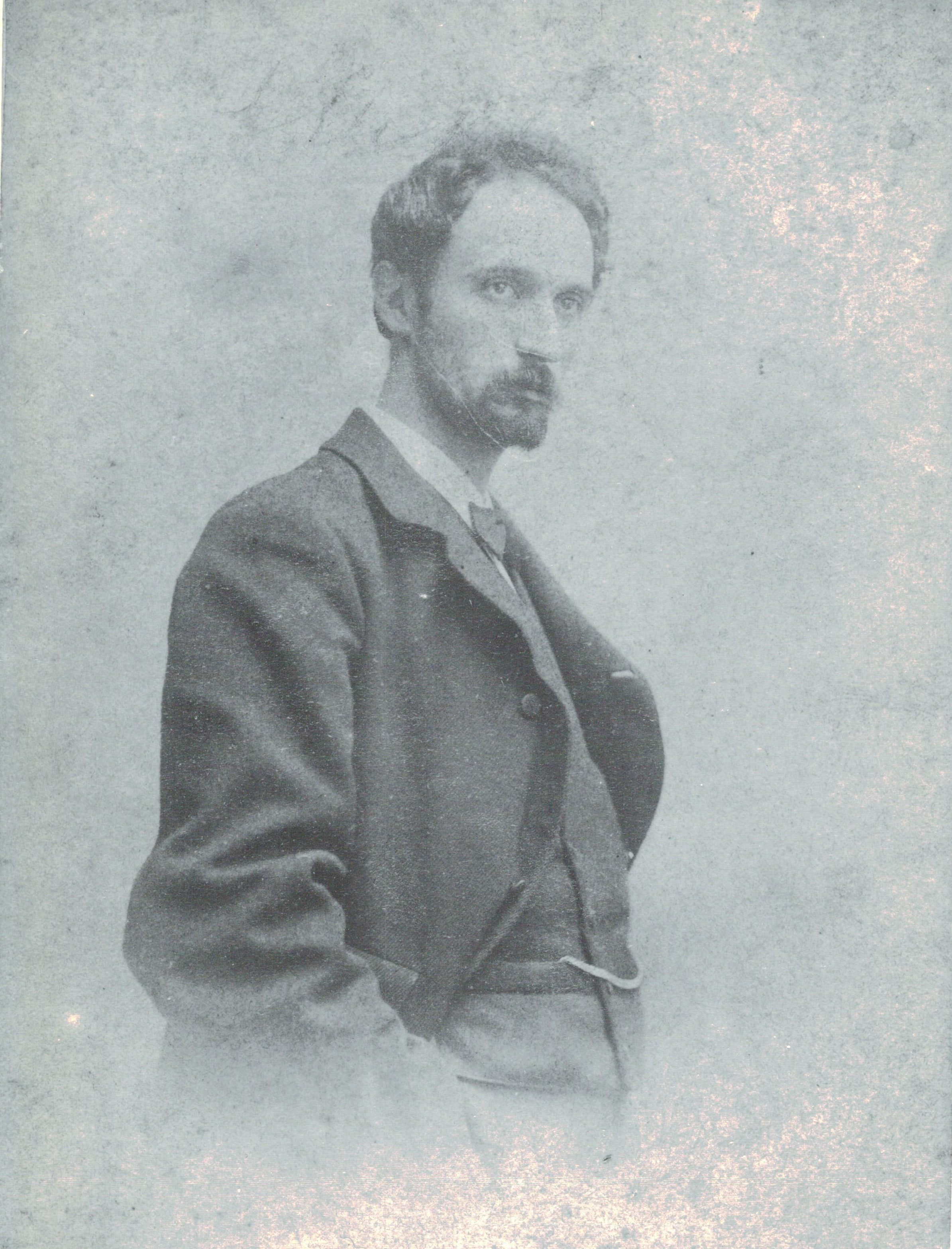 portrait photo of Eugenio Pellini